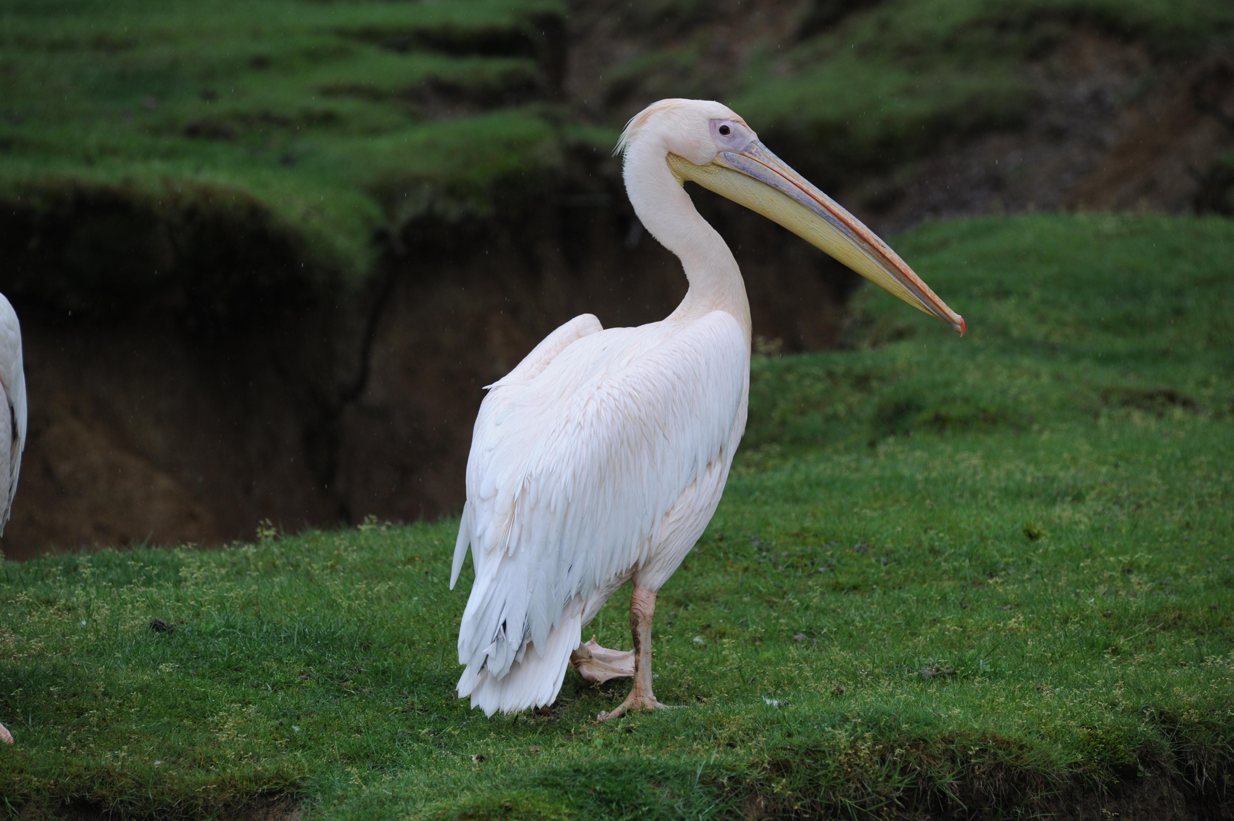 Great White Pelican in Pombia Safari Park ITALY